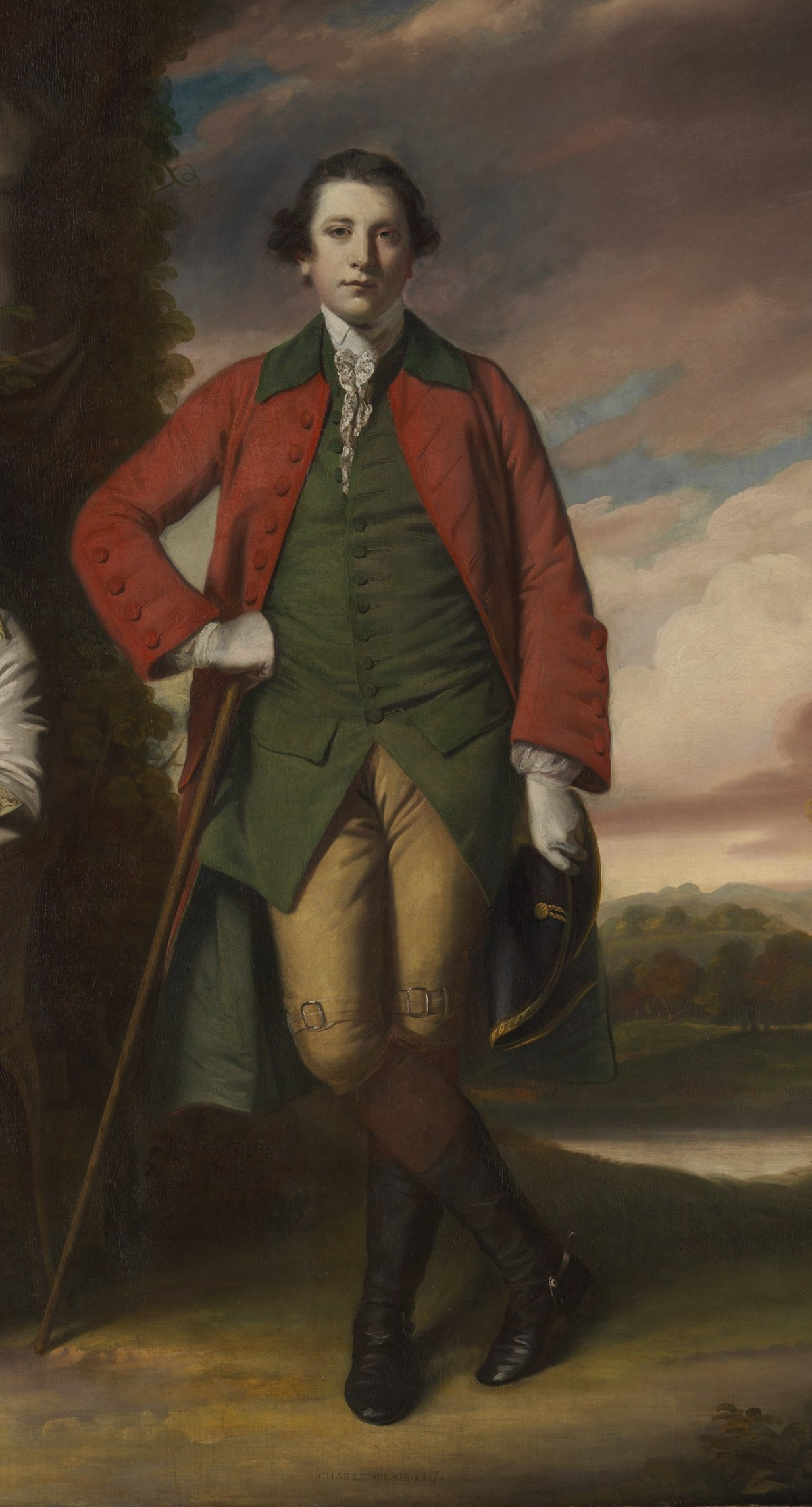 Charles Blair (detail of The Honorable Henry Fane (1739–1802) with Inigo Jones and Charles Blair) Artist: Sir Joshua Reynolds (British, Plympton 1723–1792 London) Date: 1761–66 Medium: Oil on canvas Dimensions: 100 1/4 x 142 in. (254.6 x 360.7 cm) Classification: Paintings Credit Line: Gift of Junius S. Morgan, 1887 Seated at the center with a greyhound at his knee is the Honorable Henry Fane, second son of the eighth earl of Westmorland. To the left is Inigo Jones, a relative of the celebrated architect, and to the right Charles Blair, Fane's brother-in-law. Reynolds's largest and most impressive conversation piece, this canvas was begun in 1761 and completed in 1766. In the course of visits to London each of the three gentlemen would have sat for Reynolds separately, in his studio.